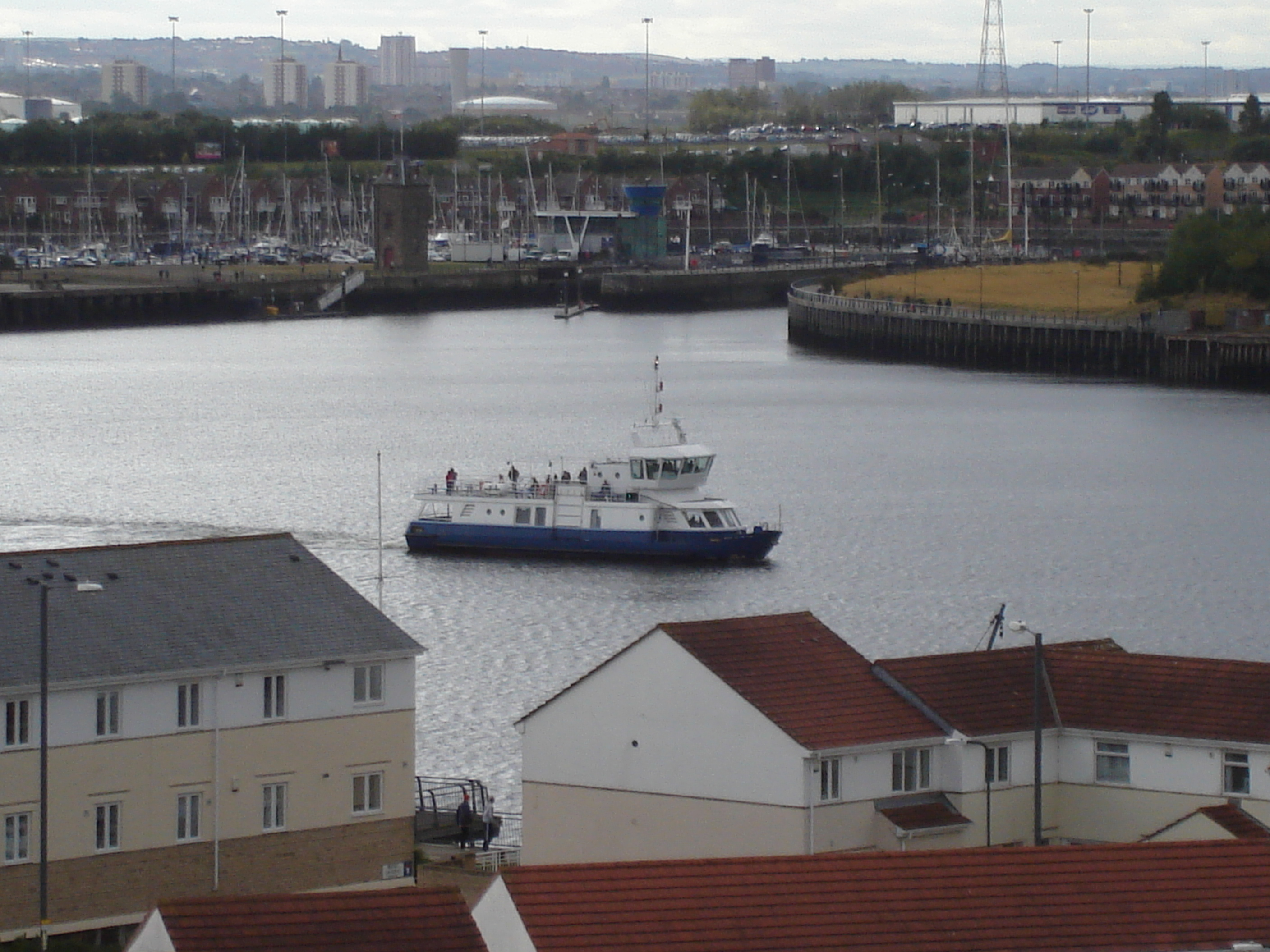 The view from South Shields on the south bank of the River Tyne, across to the entrance to the Royal Quays Marina on the north side (at this point, the river is running SSW-NNE). The boat is the passenger ferry Spirit of the Tyne, seen here working the Shields Ferry service from South Shields to North Shields.